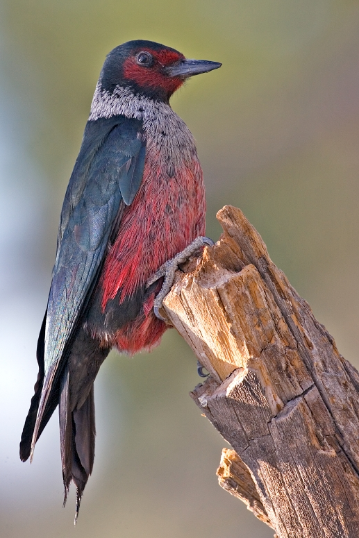 Lewis's Woodpecker (Melanerpes lewis), Cabin Lake Viewing Blinds, Deschutes National Forest, Near Fort Rock, Oregon